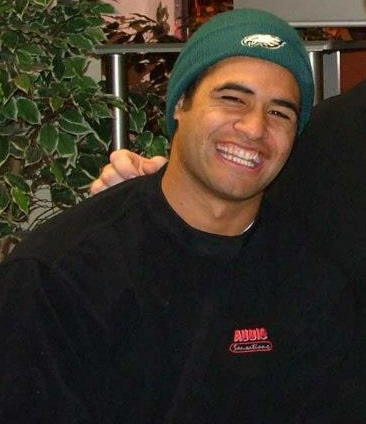 Reno Mahe: Running Back, Wide Receiver, Punt and Kick Returner for the Eagles of the 2000's